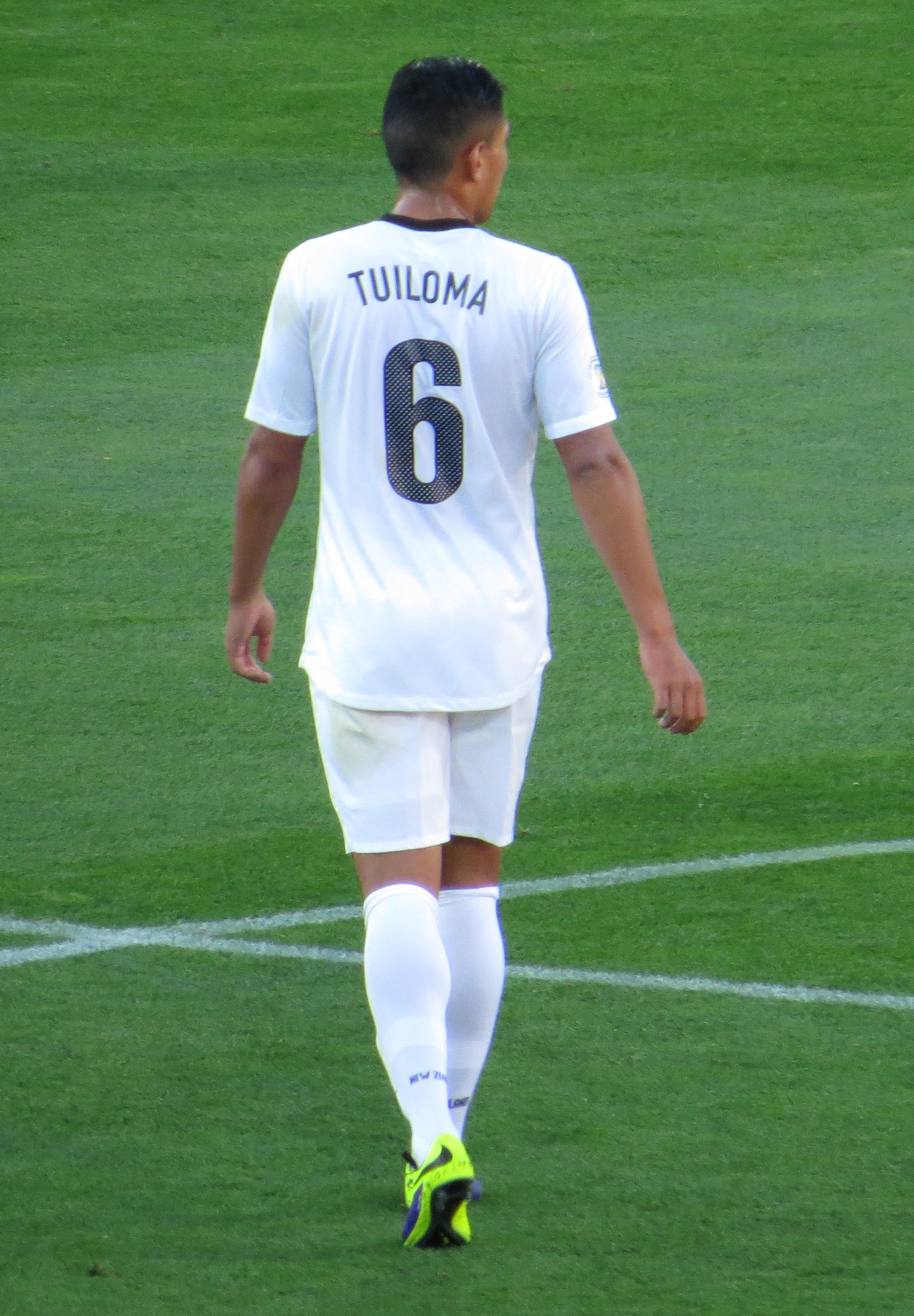 New Zealand All Whites defender Bill Tuiloma playing in their 2014 World Cup Qualification match against Mexico in November 2013